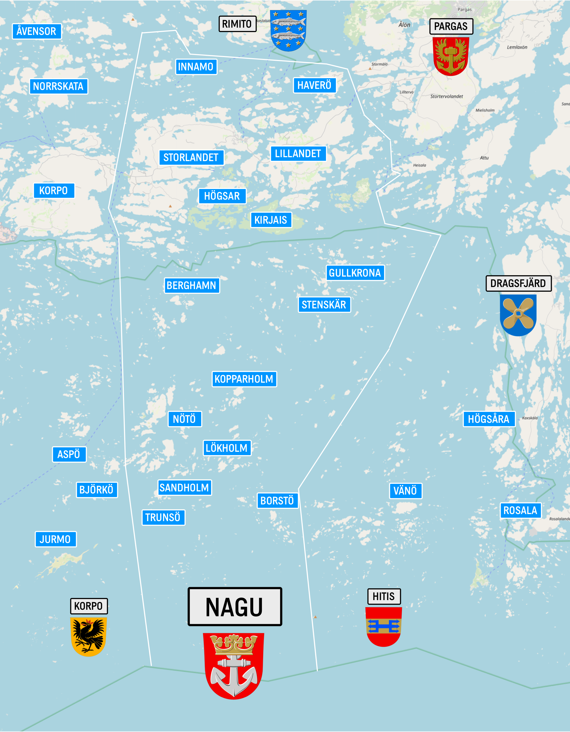 Map made from Open Street Map, adding Nagu border and names of key islands